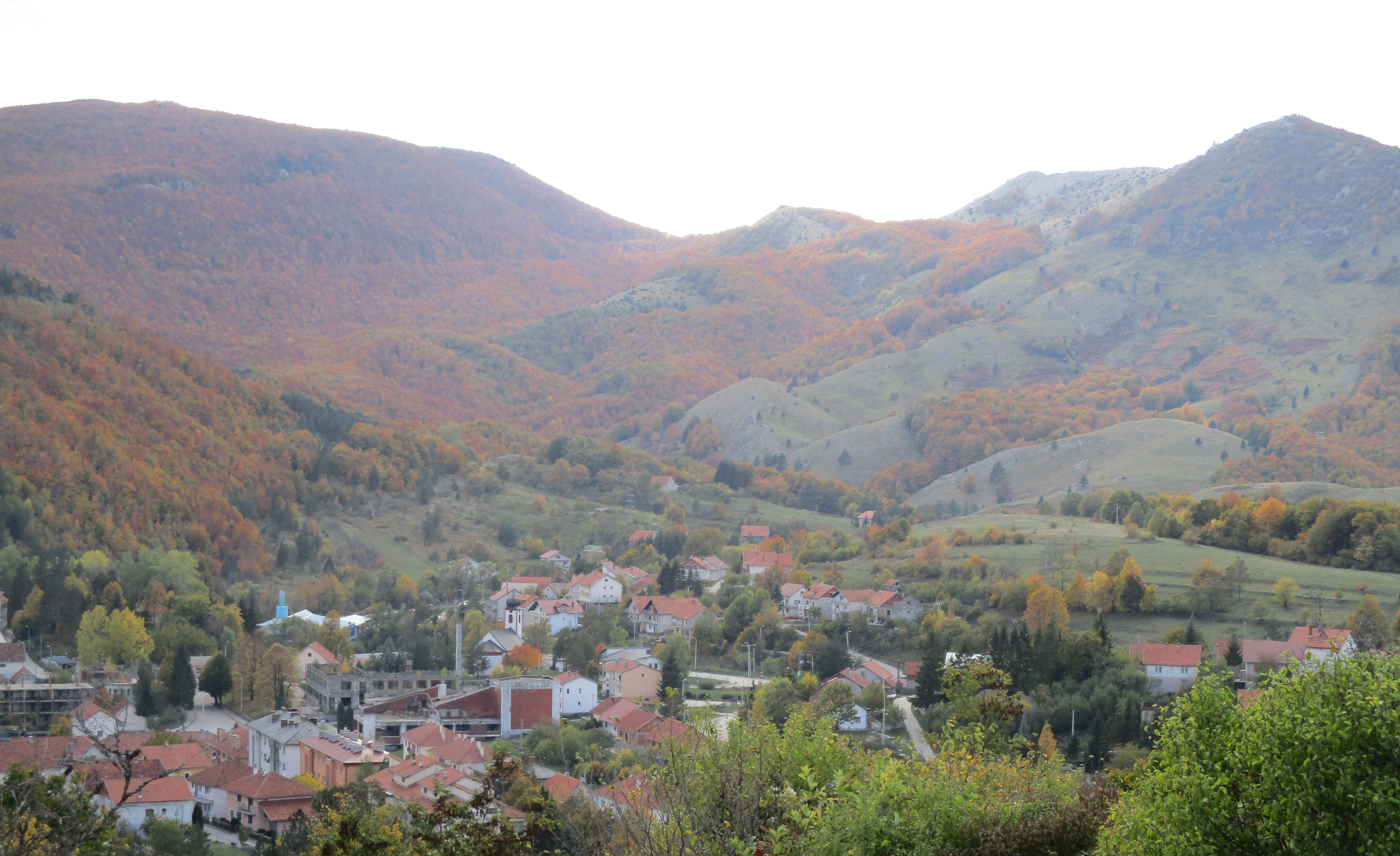 View of Bosansko Grahovo, Bosnia and Herzegovina, from the east